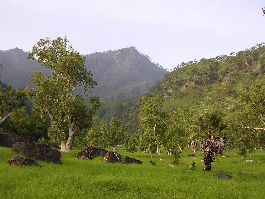 Verdant contrast: Mid wet season view of Eucalyptus alba vista at Sabaun, below Mt Curi